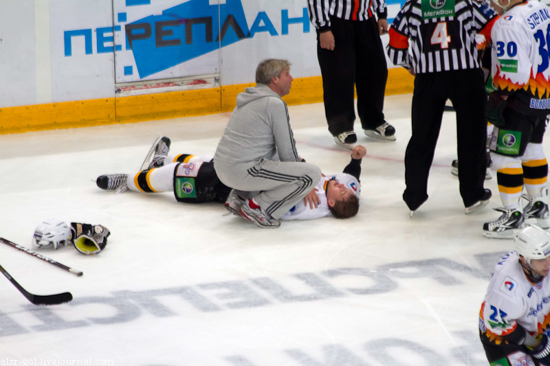 KHL game Amur Khabarovsk vs. Severstal Cherepovets on October 16, 2011.Severstal forward Evgeny Mons is given medical care.